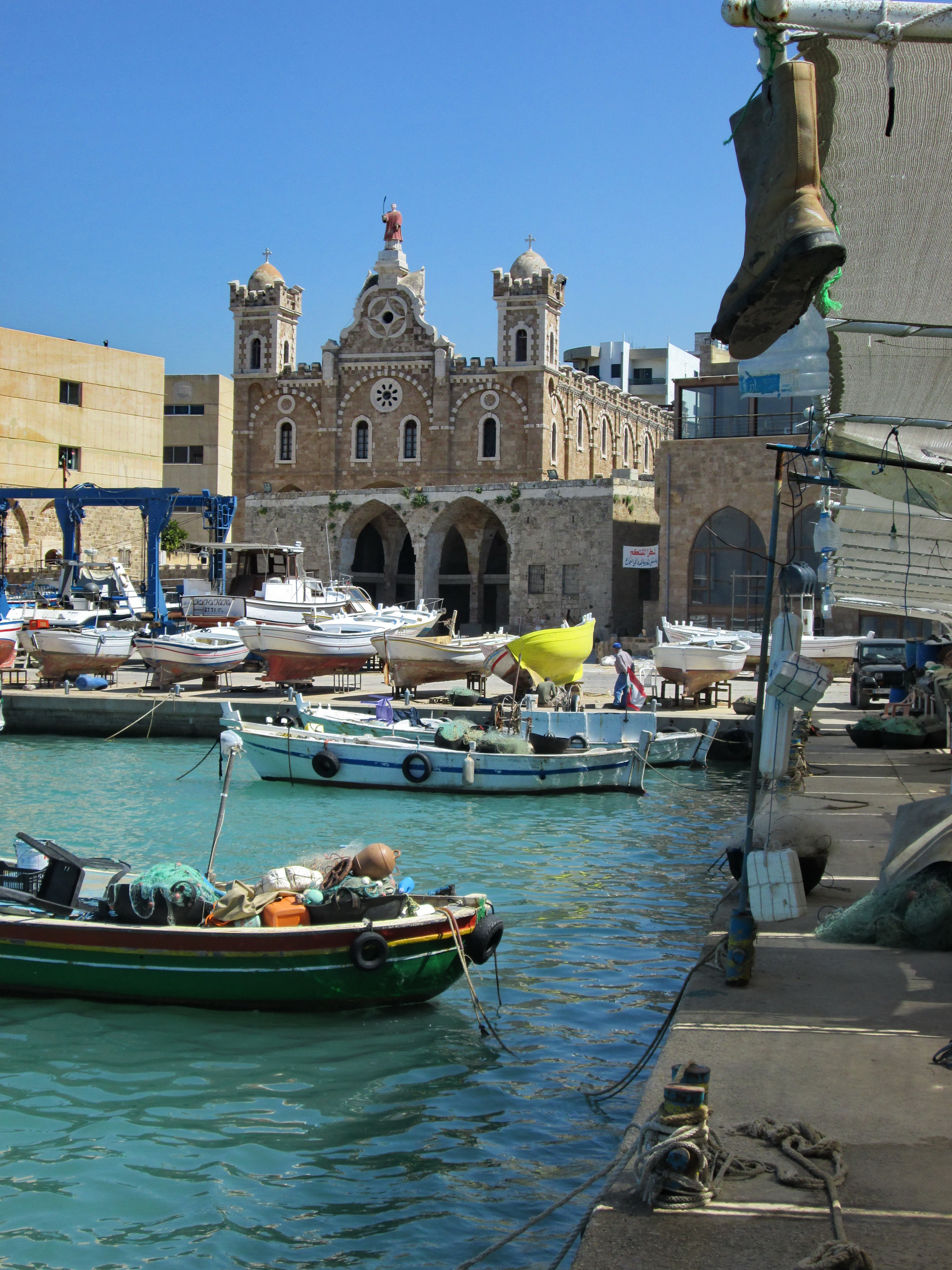 Harbor of Batroun, Lebanon (background: St. Stephen's Church) Picture taken March 2013